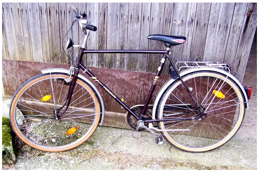 On this picture is a original Hercules bike from the 1970s.